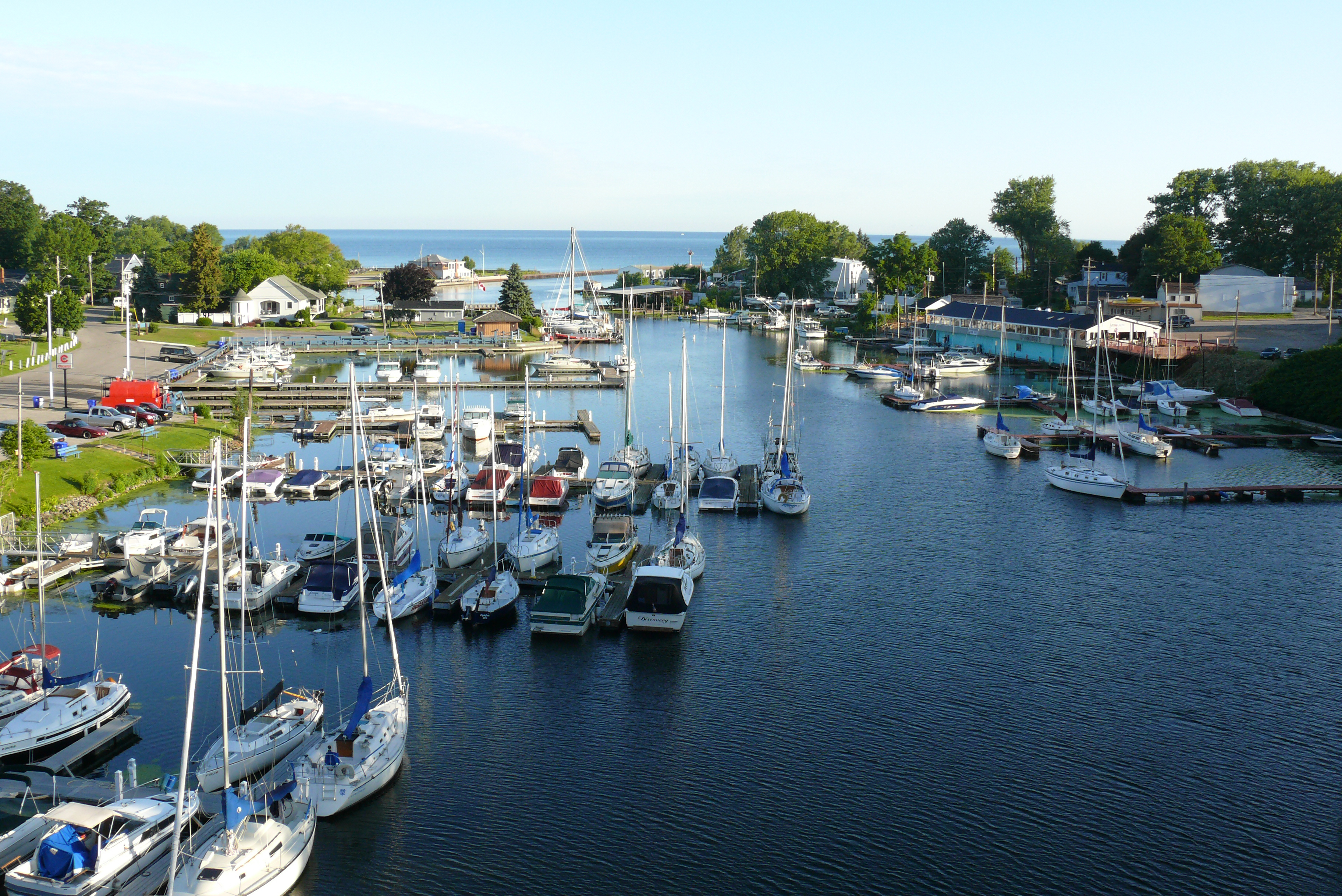 Olcott Beach marina. Olcott is a hamlet (and census-designated place) located in the Town of Newfane in Niagara County, New York, United States 14126. Most locals refer to it as Olcott Beach. It is a lakeside community which is home to the deepest harbor on Lake Ontario west of Rochester, NY.